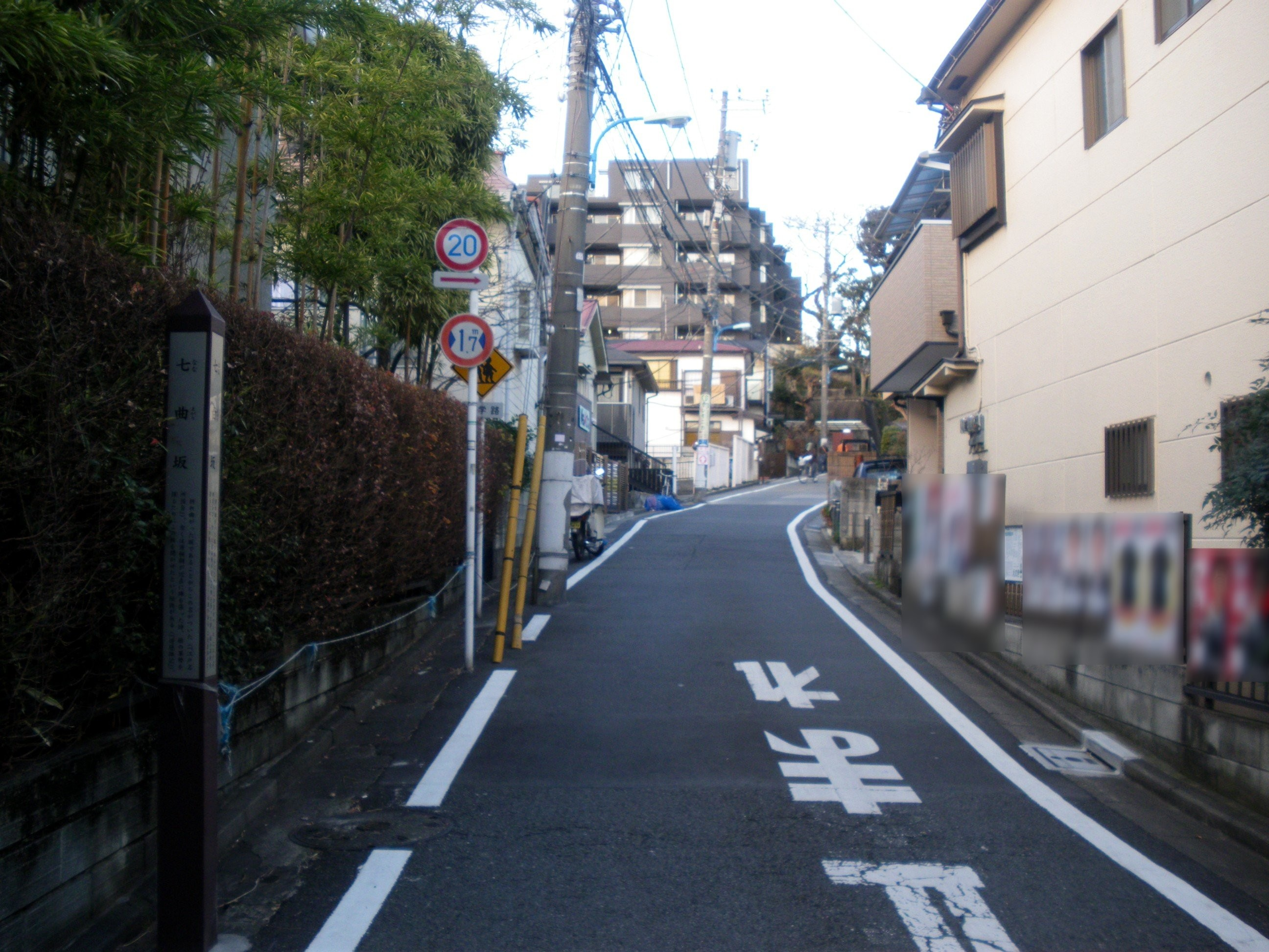 A photo of Nanamagari Zaka(slope) at Shimoochai,Shinjuku-ku,Tokyo.